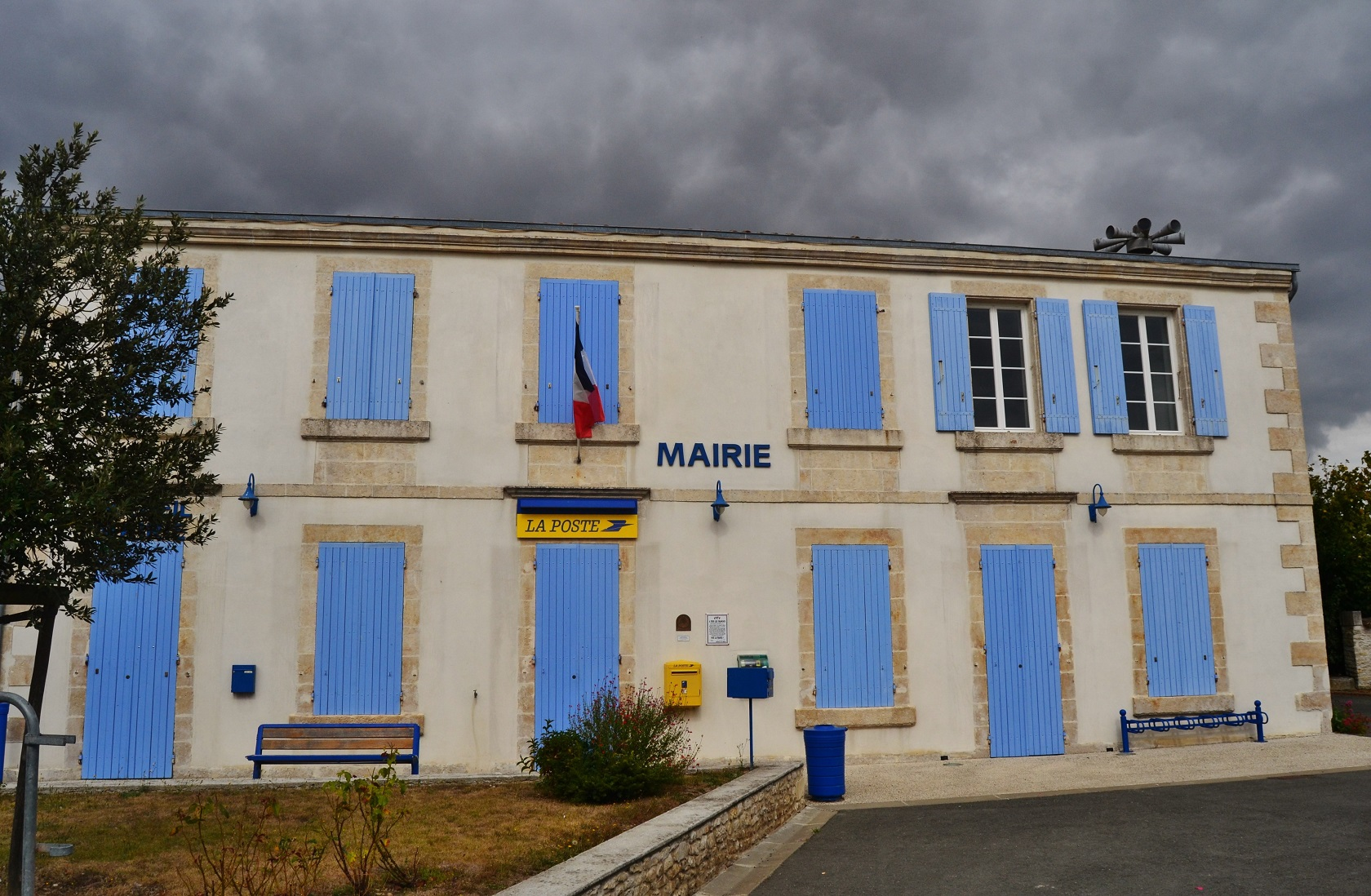 La Mairie